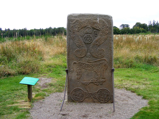 Rodney's Stone At the side of the entrance road to Brodie Castle of pictish origin. Note the newly planted trees behind it.